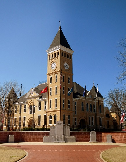 Saline County Courthouse, Sevier & Main, Benton, AR